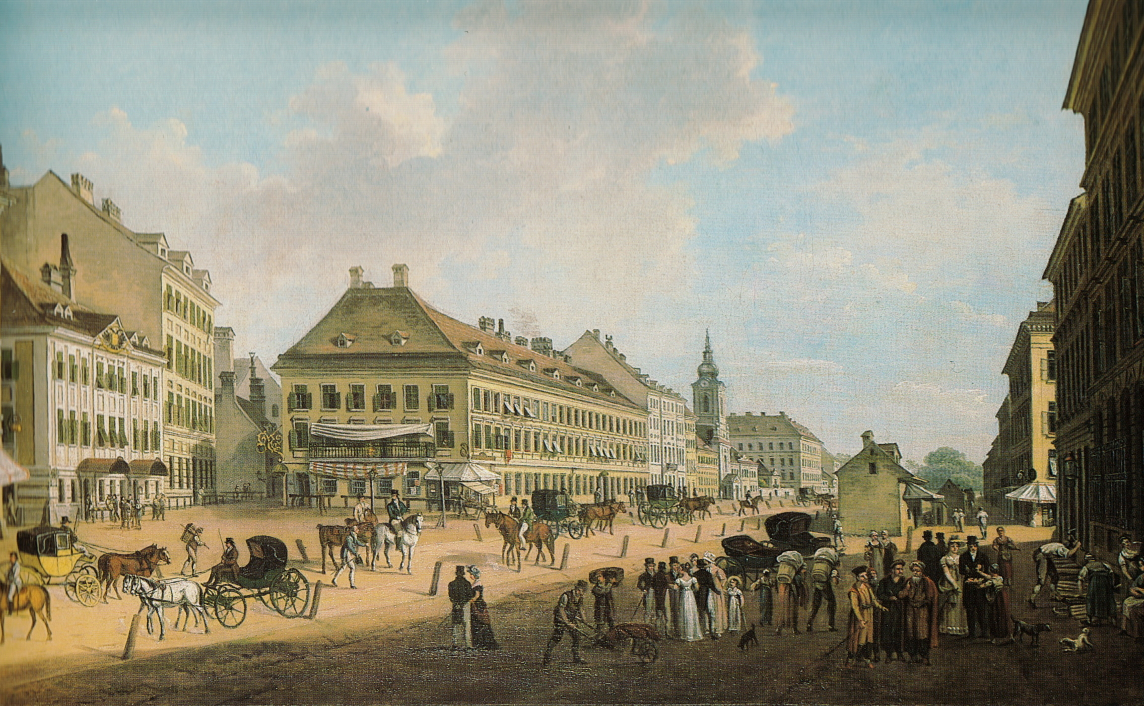 The Jägerzeile (now Praterstrasse) in Vienna. Oil on canvas. Collection: Wien Museum